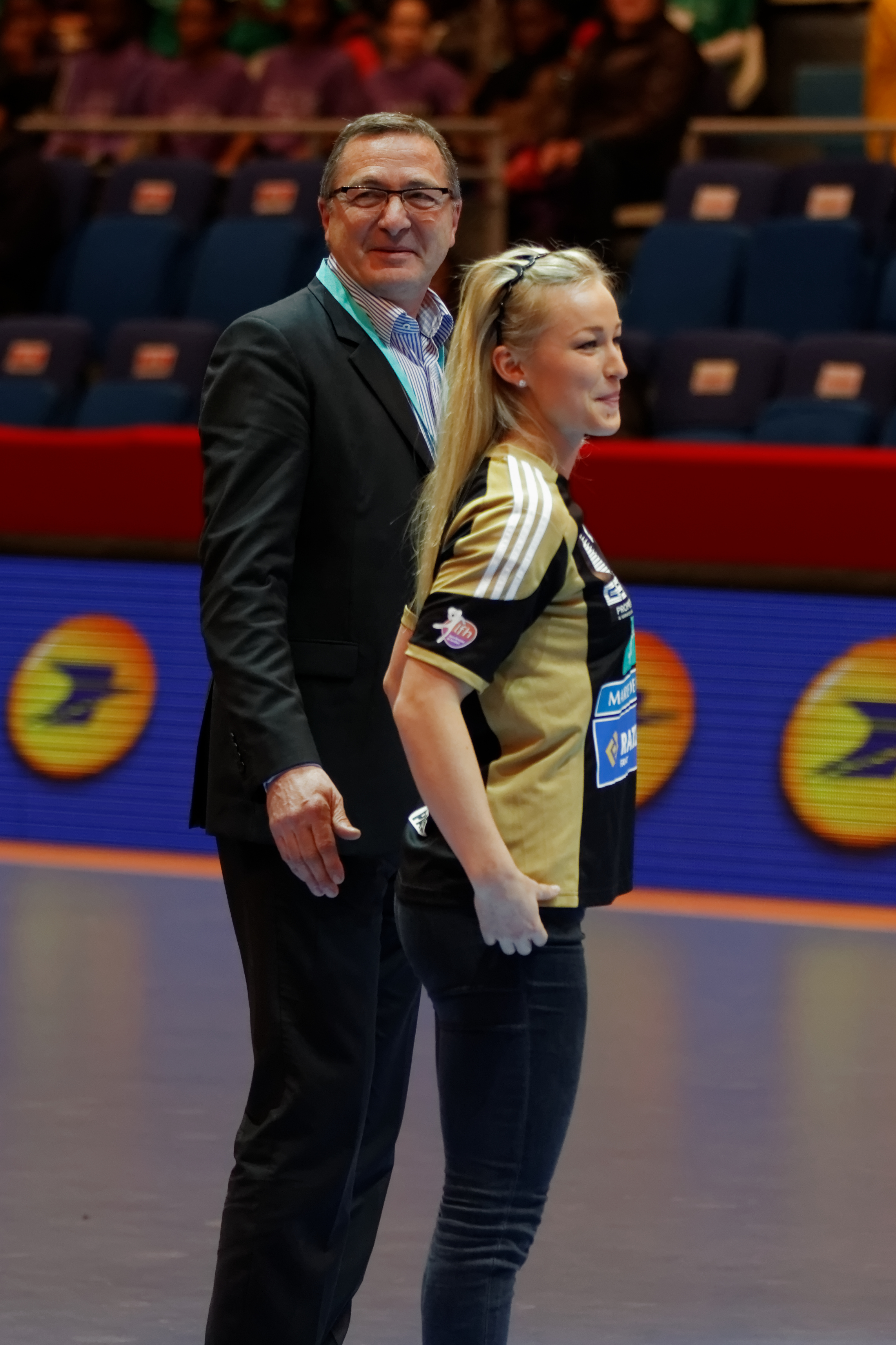 Final of the Women's handball French cup 2013. Handball Cercle Nîmes vs Issy Paris Hand, stadium Pierre-de-Coubertin at Paris.